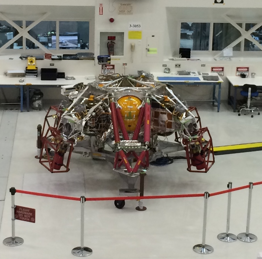 The powered descent stage being assembled for the Mars 2020 mission seen at NASA's JPL on June 10, 2018 in Pasadena, California. This will be the final stage to bring Mars 2020's rover "Perseverance" to the Martian surface from 200 miles an hour, to 2 miles an hour. This will drop the rover through cables and bring it gently to the surface before detaching and flying off in the distance. A similar powered descent stage was built for the Curiosity rover that landed on Mars in 2012.